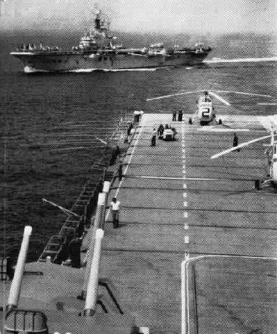 The Royal Australian Navy aircraft carrier HMAS Melbourne (R21) passes aft of the U.S. Navy aircraft carrier USS Philippine Sea (CVS-47) in the South China Sea during exercise "Oceanlink", in May 1958.